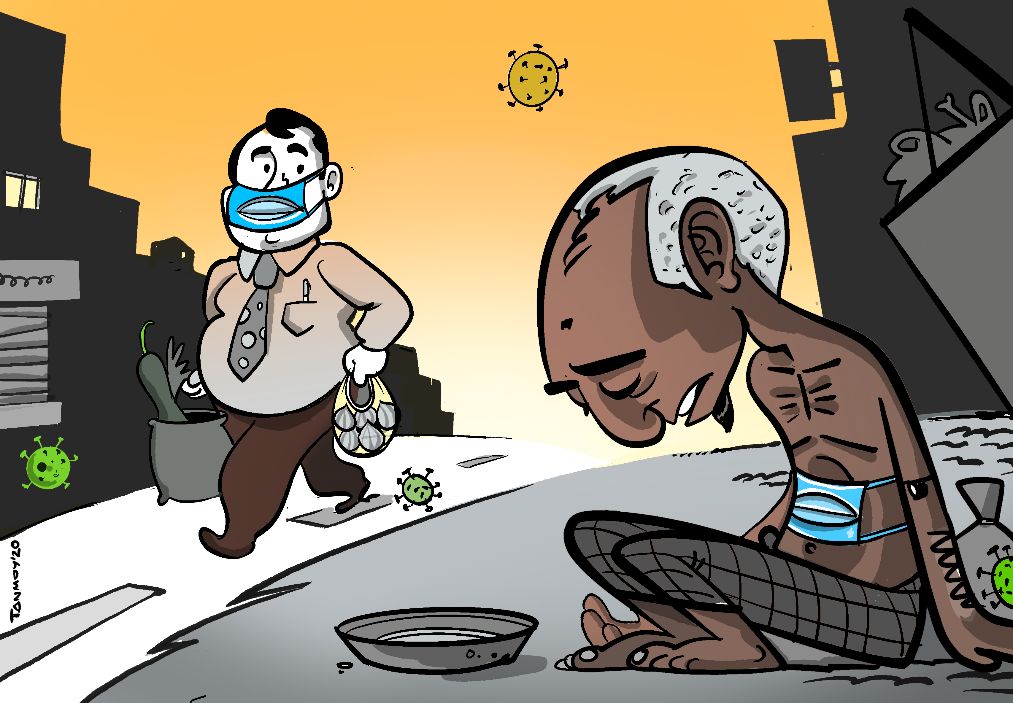 As businesses close down, for some it’s not about surviving the pandemic but till the next meal. Do more, donate.